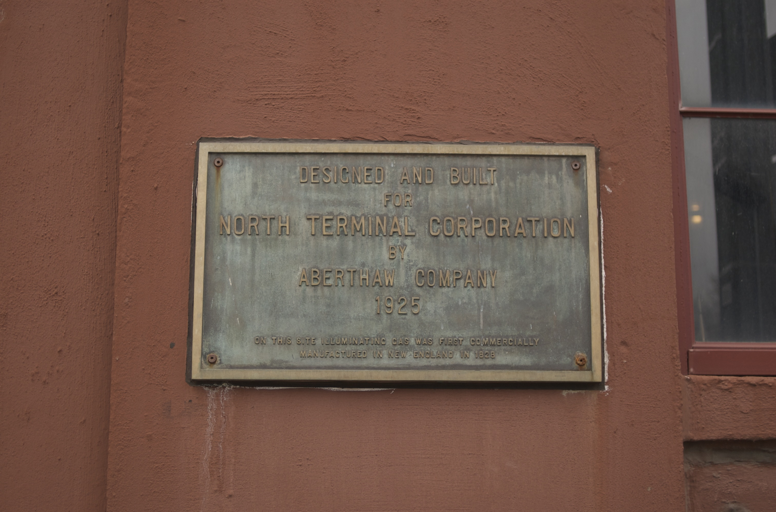 A plaque on the front of the North Terminal Garage in Boston, Massachusetts, reading: "Designed and built for North Terminal Corporation by Aberthaw Company, 1925. On this site illuminating gas was first commercially manufactured in New England in 1828."